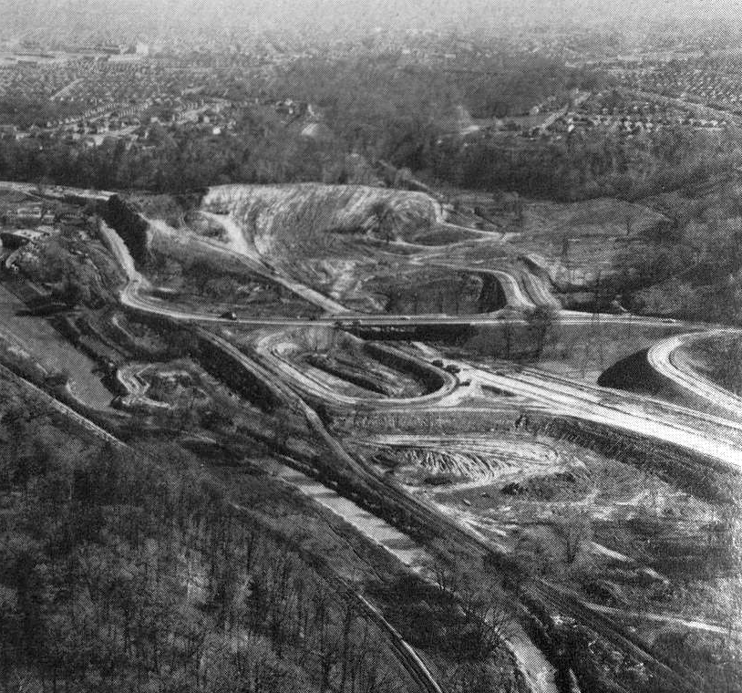 Grading on the Don Valley Parkway at Don Mills Road, facing east. The removal of Tumper's Hill is visible in the background.